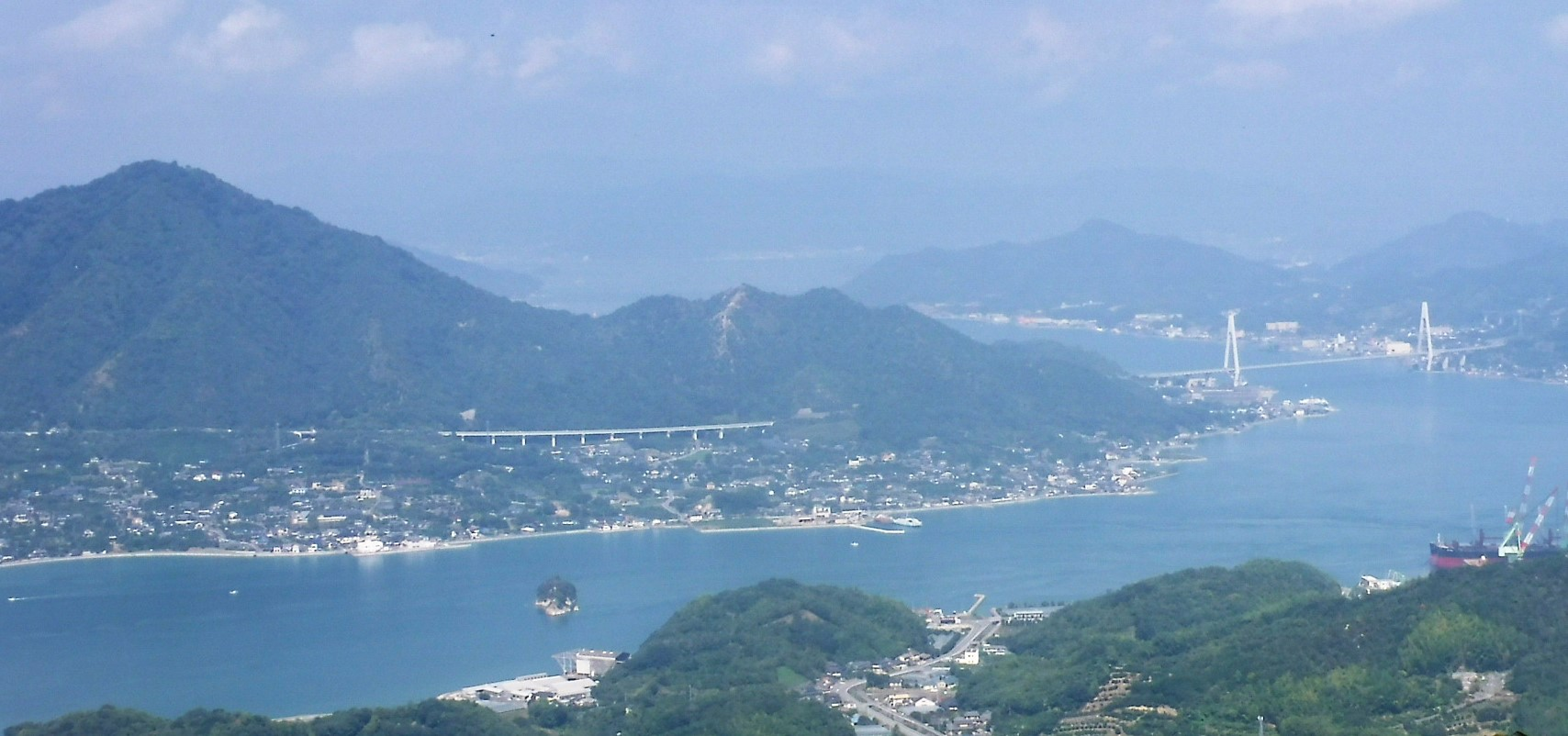 view from Mt.sekizen, IWAKI-Island, Ehime-pref, JANAN